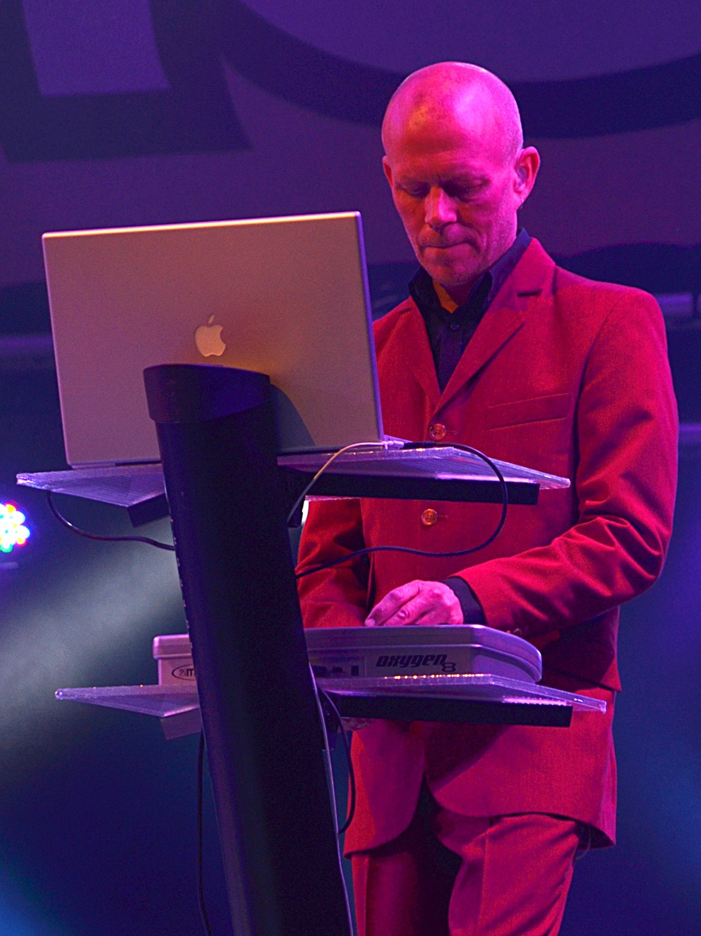 Erasure performed at Delamere Forest (near Chester), England, UK on 1 July 2011. Erasure were supported by the four-piece Foreign Office. Erasure were on form, they kicked off with "Hideaway", and just sang hit after hit, "Oh L'Amour", "Sometimes", "Victim of Love", "Love to Hate You", "Breathe", "Knocking on your Door", "Chains of Love", "Ship of Fools" and many more.